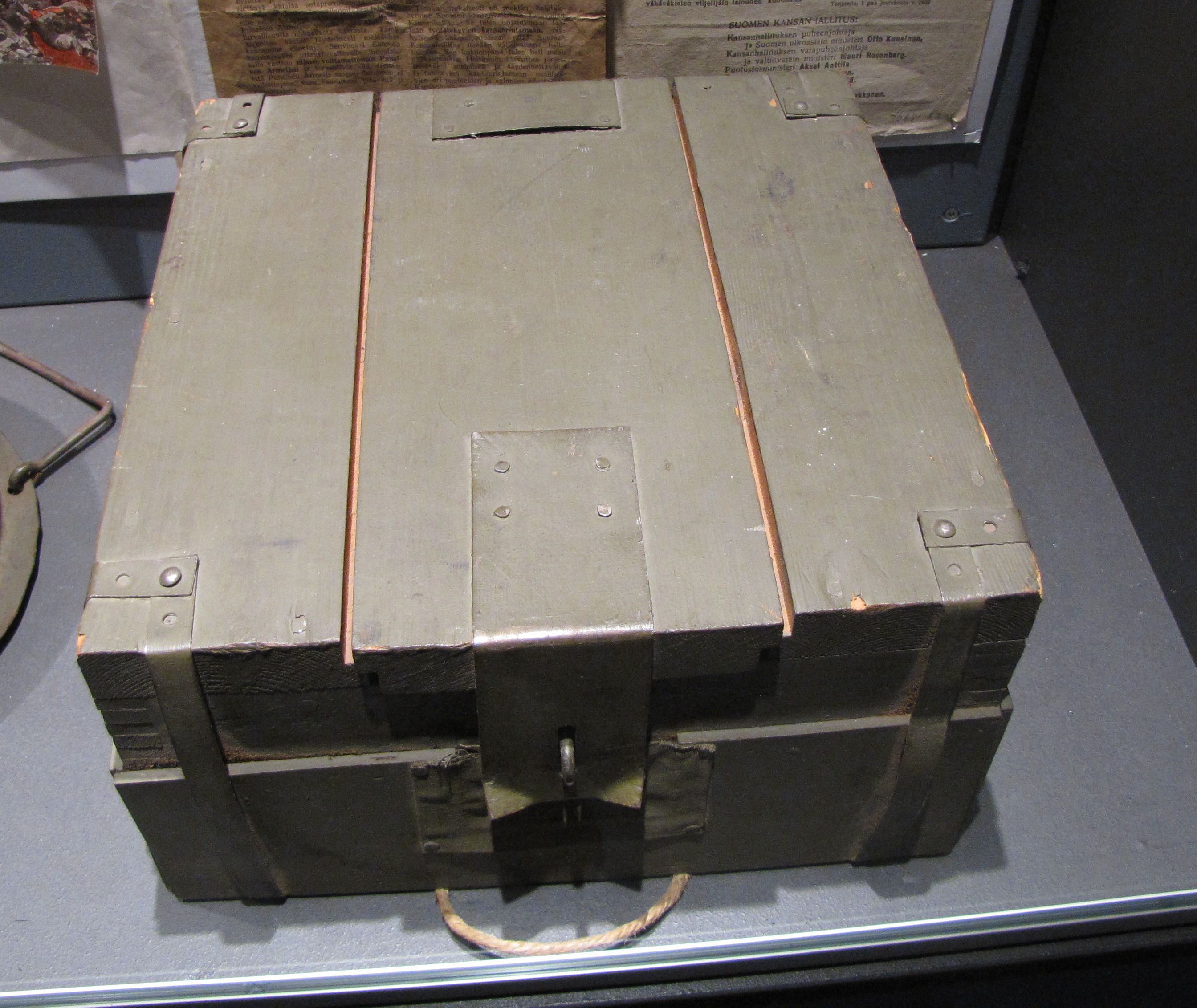 Finnish anti-tank mine m/S-39. This mine was a simplified wartime mass-production model with wooden construction. Photographed in the "Winter War - 70 years" exhibition in the Military Museum of Finland.